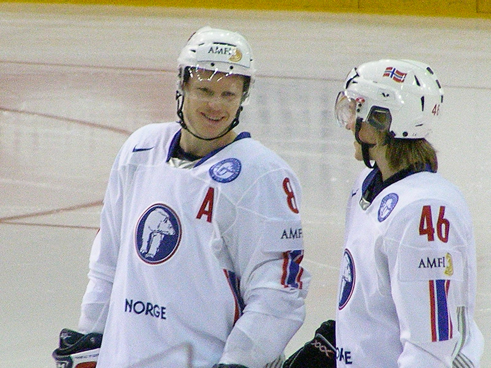 Mads Hansen (#8, left) and Mathis Olimb (#46, right), members of Norway men's national ice hockey team, during a game against Slovakia men's national ice hockey team at the 2008 IIHF World Championship.